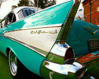 (1 in a multiple picture album) The 1957 Chevrolet was and is the ultimate of the 1950s cars.